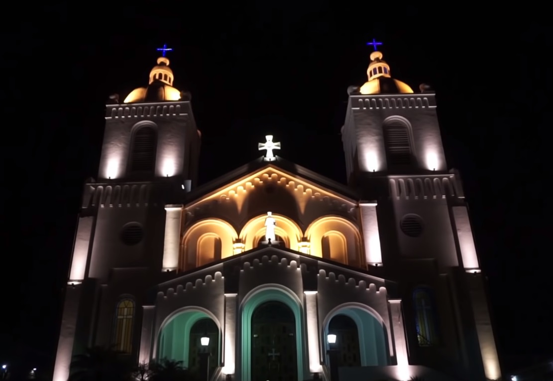 Church of Encarnación, Paraguay